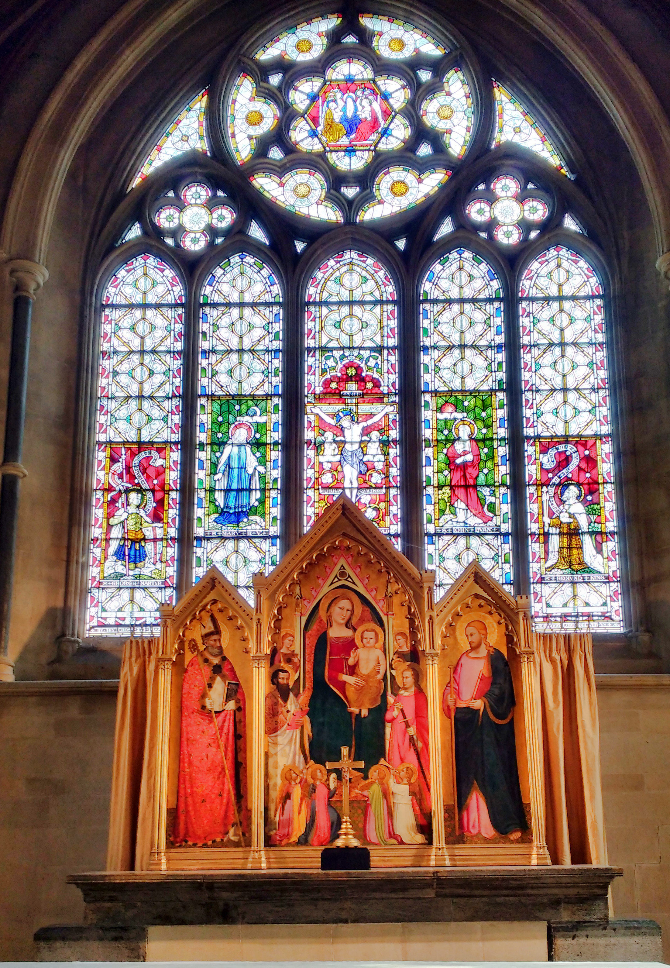 Altar, reredos and East Window, St Mary the Virgin, Holmbury St Mary. The triptych behind the altar is attributed to Spinello Aretino.